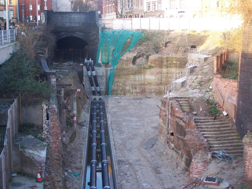 Author: Martin Cordon, Source: Own Picture Martin Cordon 21:07, 14 January 2007 (UTC)